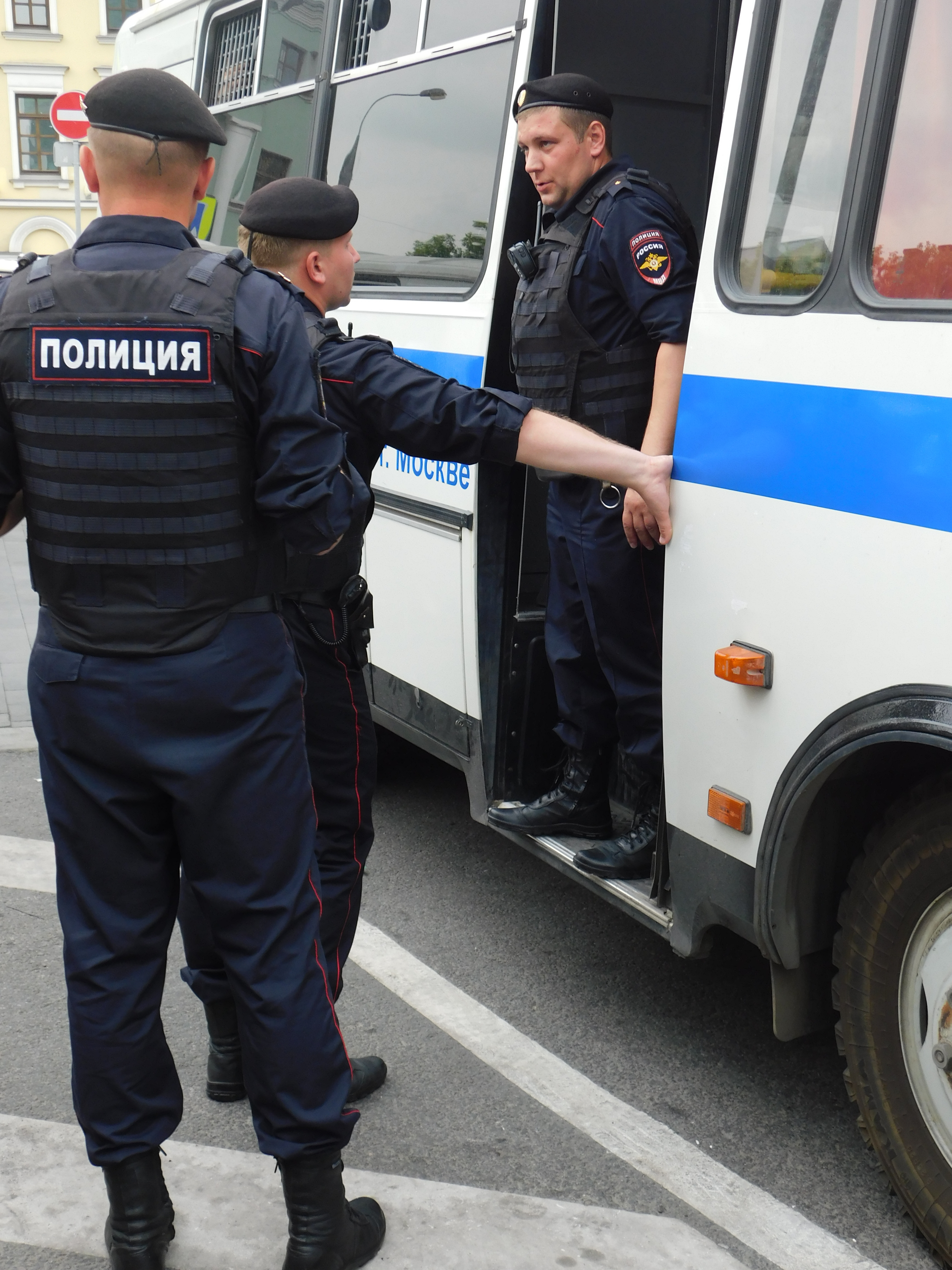 Golunov march